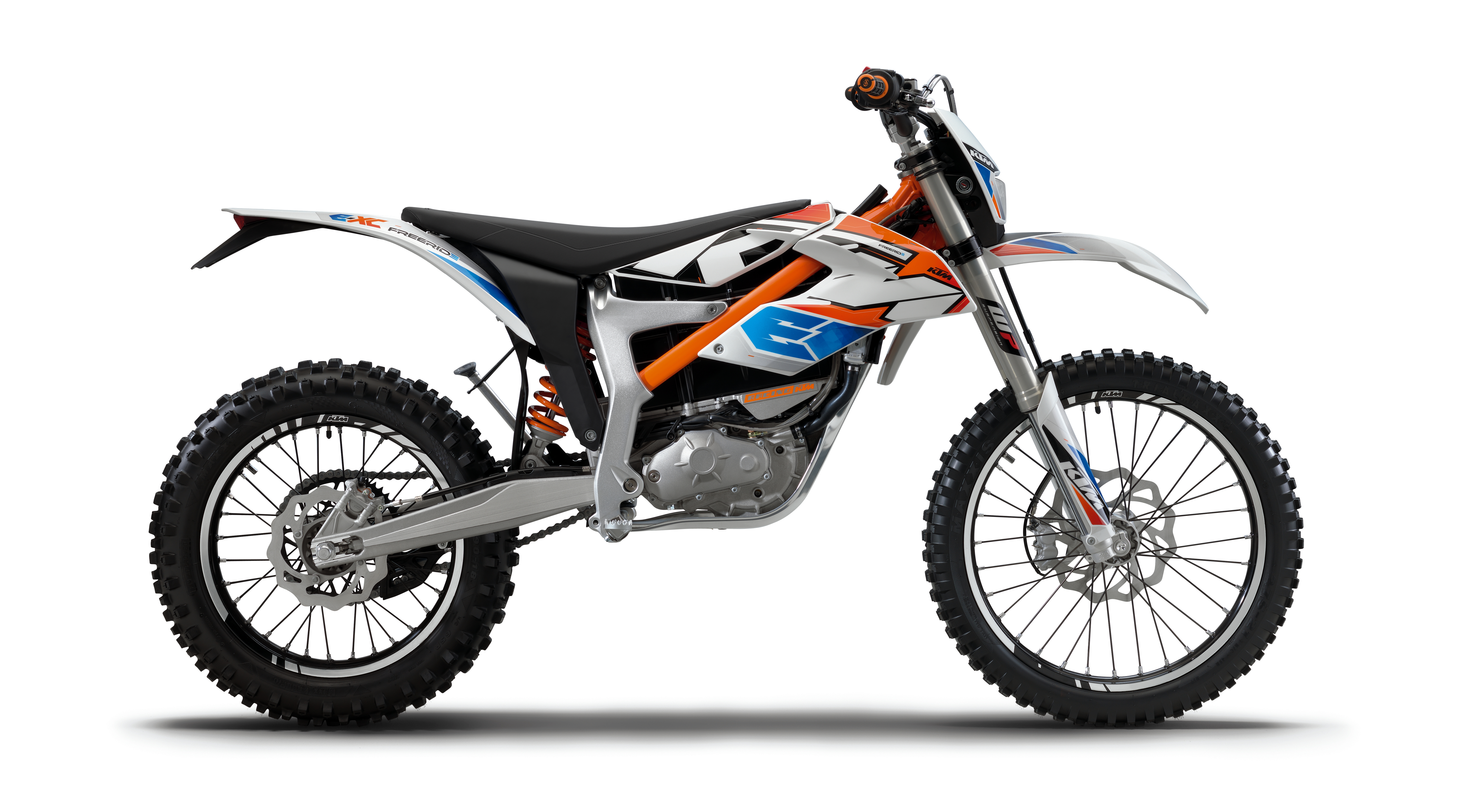 KTM Freeride E-XC